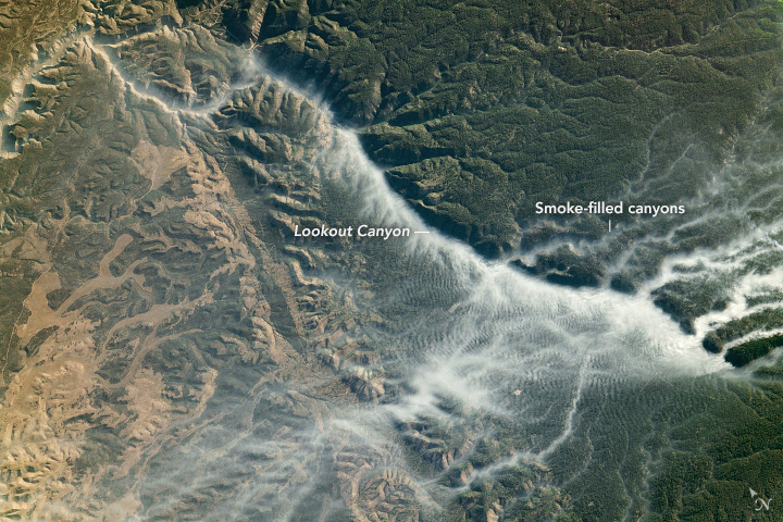 Lightning struck the Kaibab Plateau in Arizona along the northern rim of the Grand Canyon on July 12, 2019, starting a wildfire (the Castle Fire) that would eventually burn more than 19,000 acres. As it was still burning almost a month later, an astronaut onboard the International Space Station shot this photograph of smoke-filled canyons in the region. During morning and evening hours, dense smoke often settles in low-lying areas and becomes trapped due to temperature inversions—when a layer within the lower atmosphere acts as a lid and prevents vertical mixing of the air. Steep canyon walls act as a horizontal blockade, concentrating the smoke within the deepest parts of the canyon and increasing the strength of the inversion. As the day progresses and temperatures rise, the air will usually begin to mix and the smoke will no longer be confined to the canyon. As this image shows, without vertical mixing, the smoke from Lookout Canyon travels throughout the extensive system of side canyons, spreading the smoke to different areas near the ground, rather than dispersing upward.